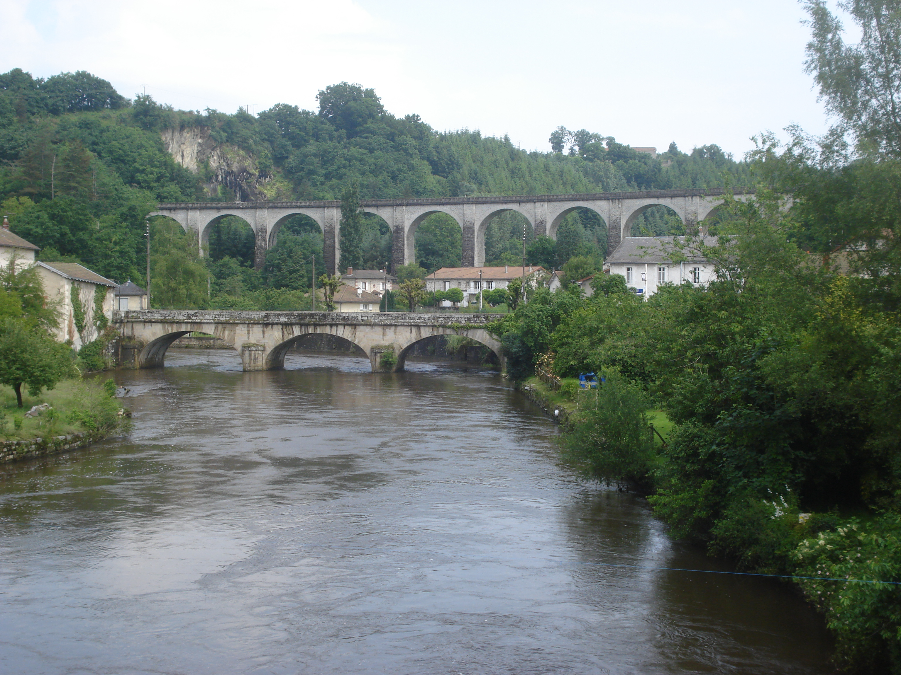 Vienne river and railway bridge Pont-de-Noblat (Haute-Vienne, Fr). Below the ralyway bridge is the bridge of the Route Nationale